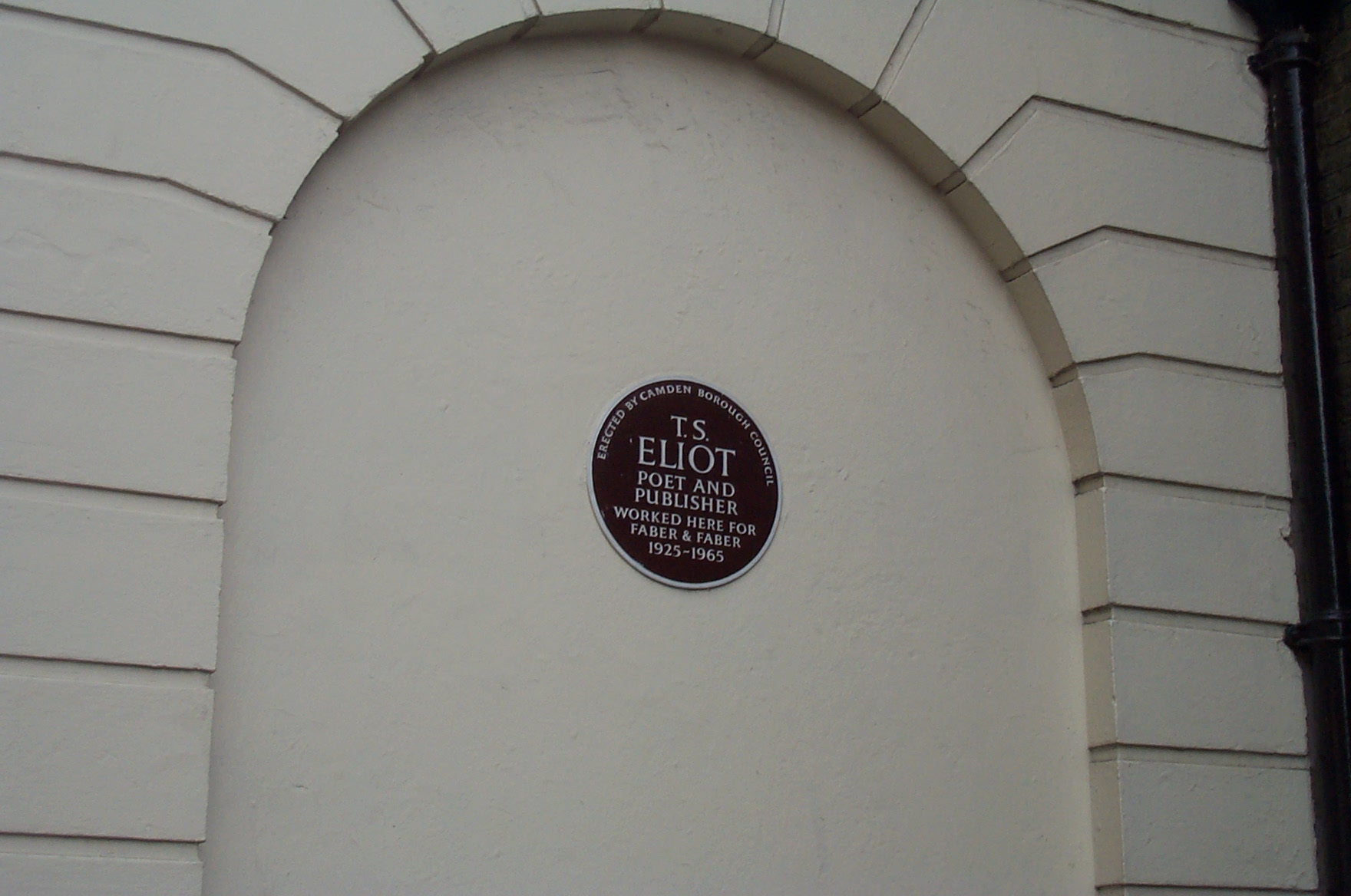 A plaque at SOAS's Faber House for T. S. Eliot.